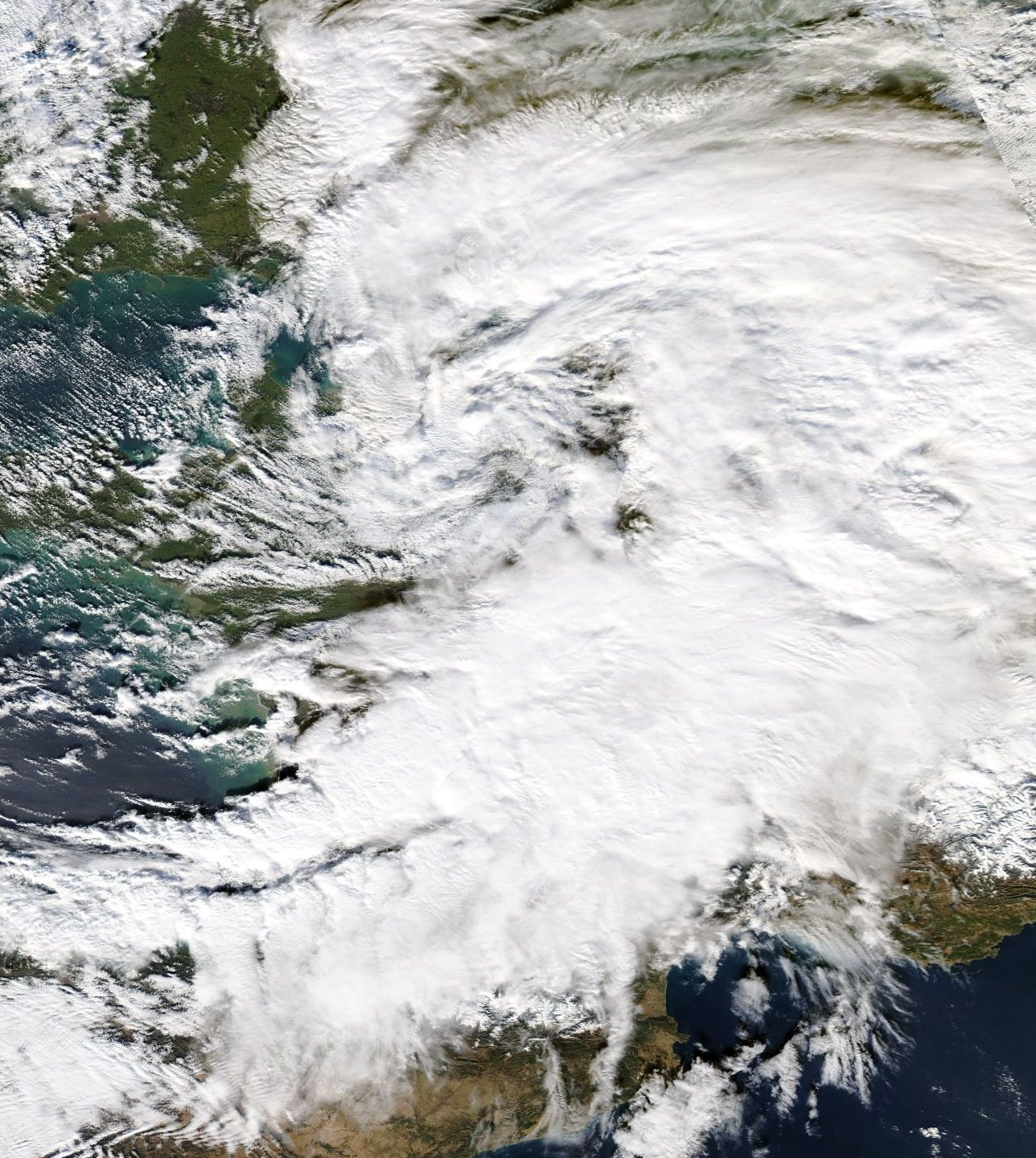 Storm Carmen over northern France on January 1, 2018.